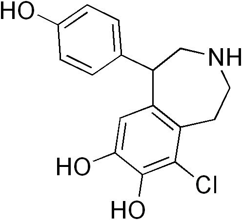 chemical structure of fenoldopam